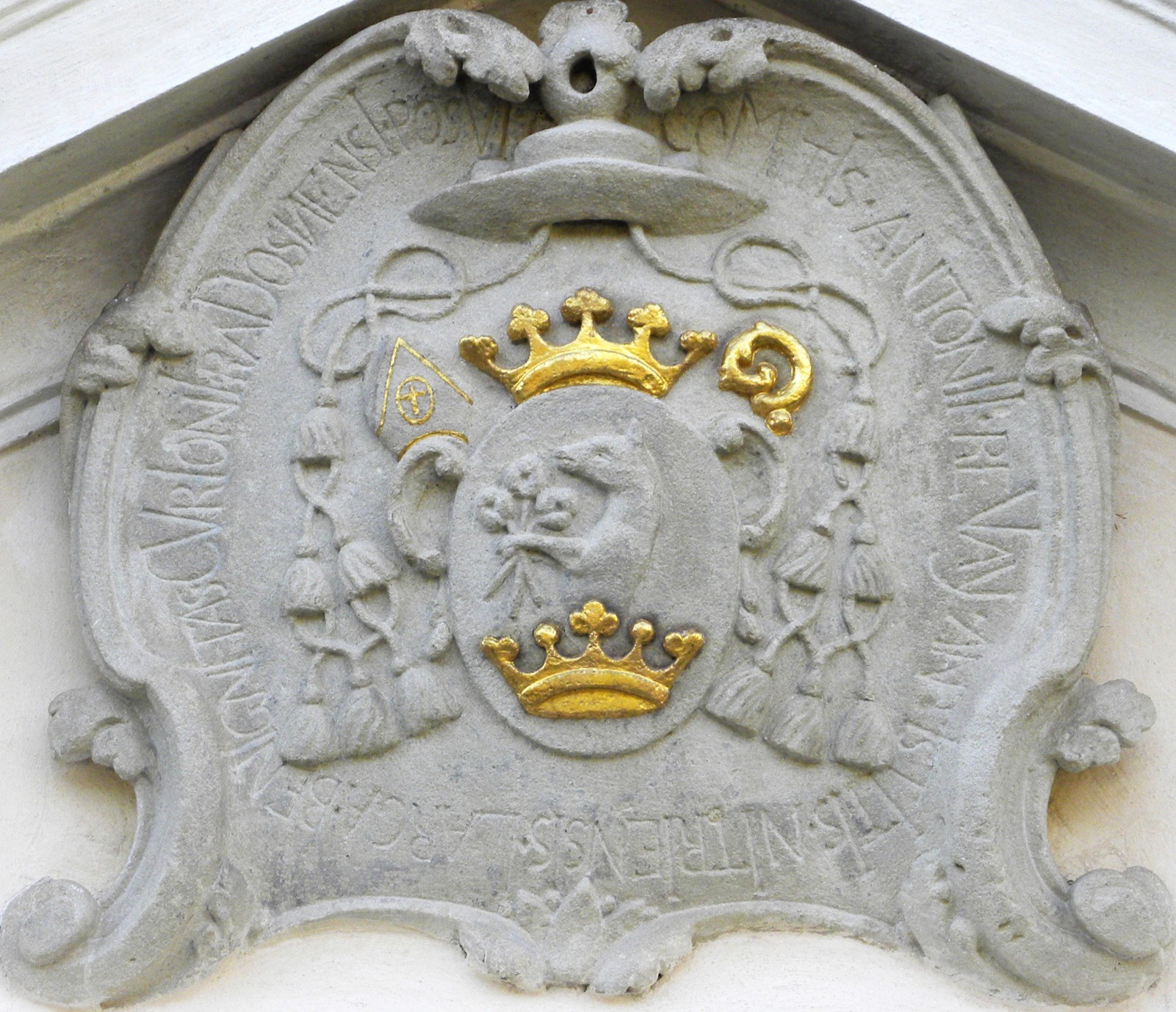 Coat of arms (shield only) of Antal Révay, bishop of Rožňava, Slovakia (1776 - 1780), bishop of Nitra, Slovakia (1780 - 1783). Parish office, Radošina.